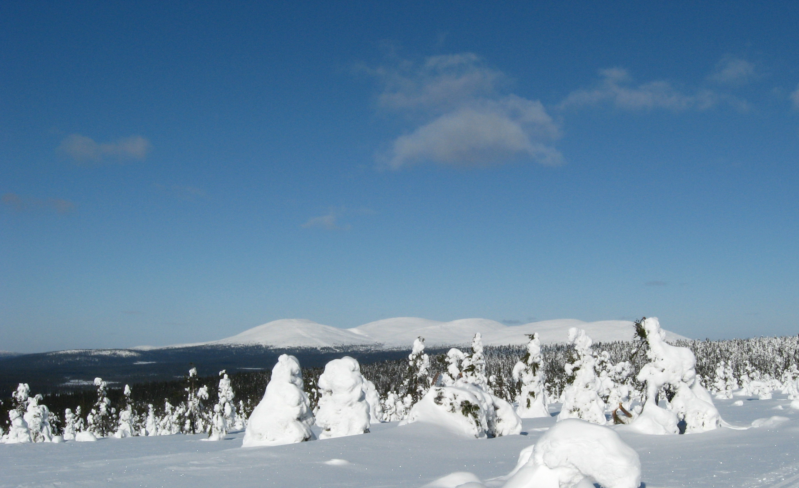 Pallastunturi fell, Muonio, Finland. Summits from left to right: Laukukero, Taivaskero, Pyhäkero, Palkaskero and Pallaskero. Photo taken from the slopes of Sammaltunturi.